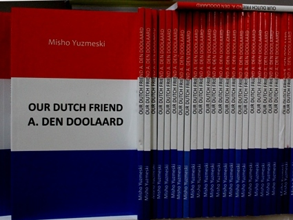 The English translation of the book Our Dutch Friend A. den Doolaard by Misho Yuzmeski